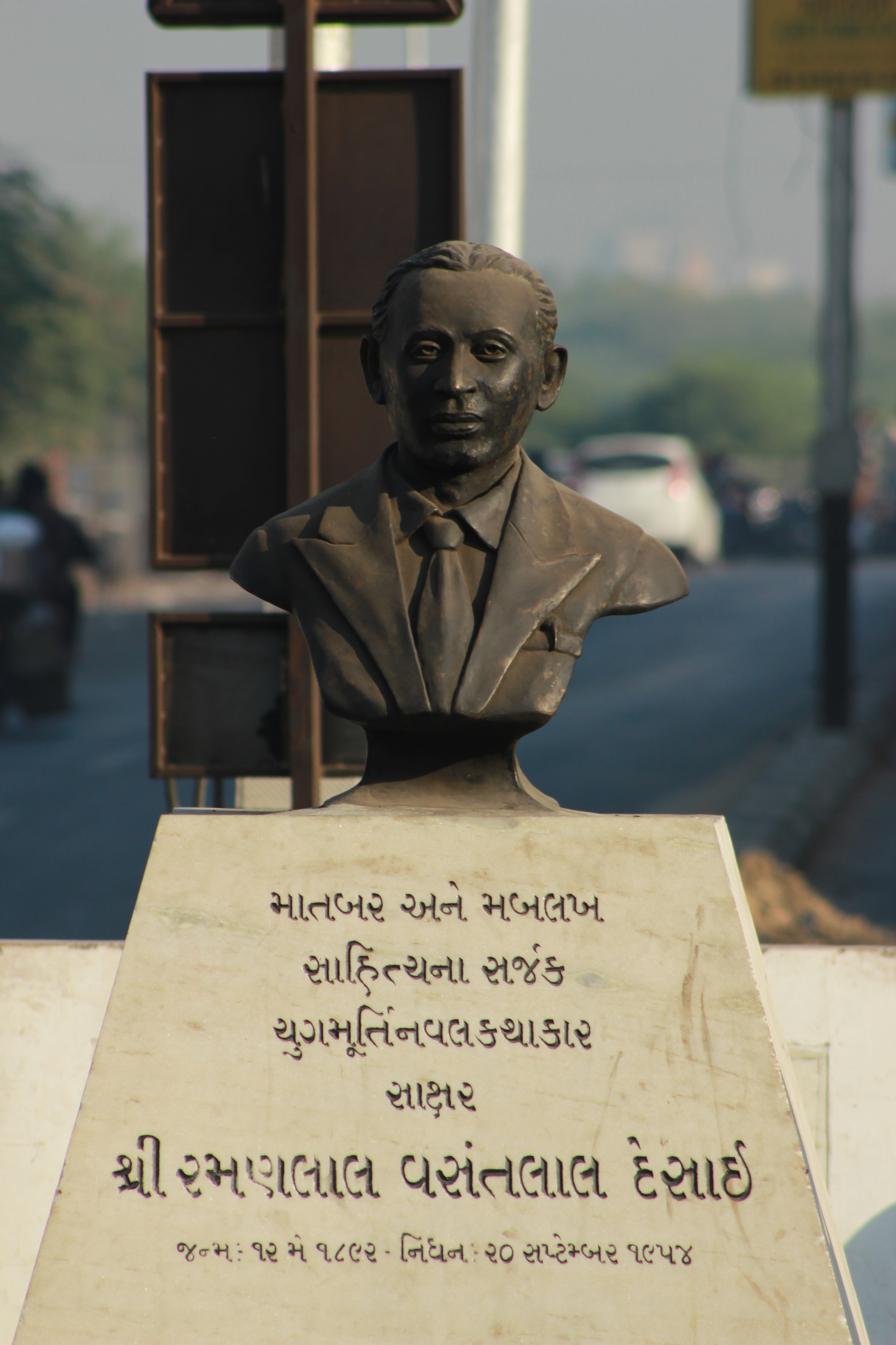 Ramanlal Vasantlal Desai ગુજરાતી: રમણલાલ વસંતલાલ દેસાઈ